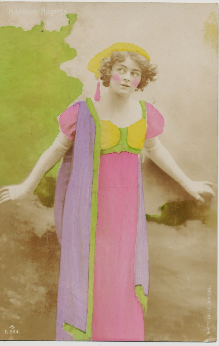 Lallie Charles Adrienne Augarde Hand painted postcard 13.5 x 8.8 cms (5.31 x 3.46 ins) c.1910 HC 11368